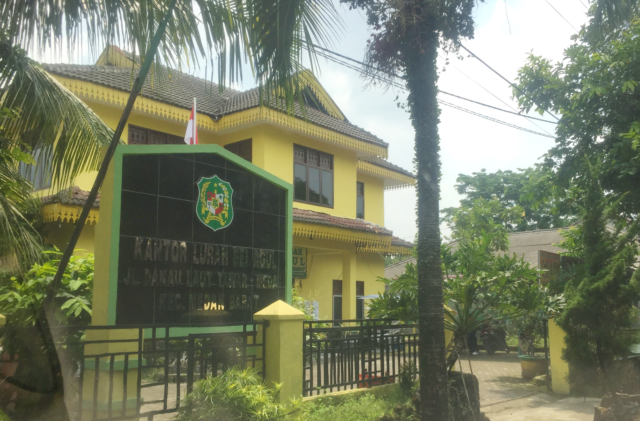 office of Sei Agul, Medan Barat, Medan